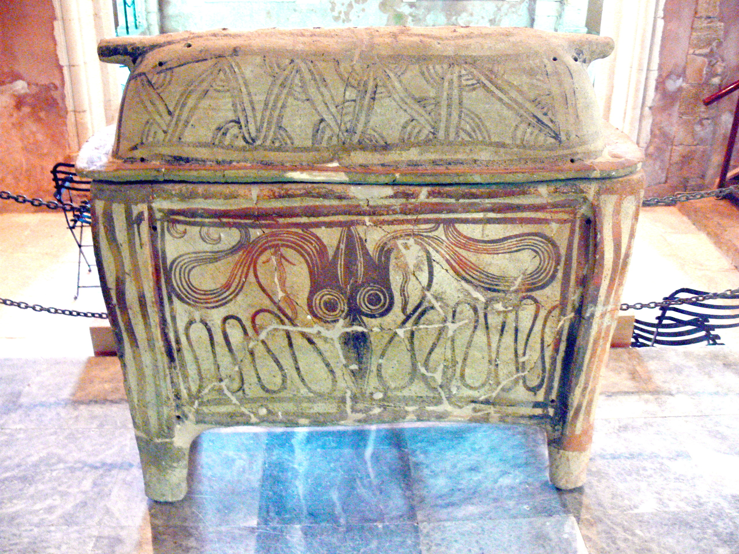 Archaeological Museum in Chania. Late minoan sarcophagus from the necropolis of Armeni, 1400-1200 B.C.